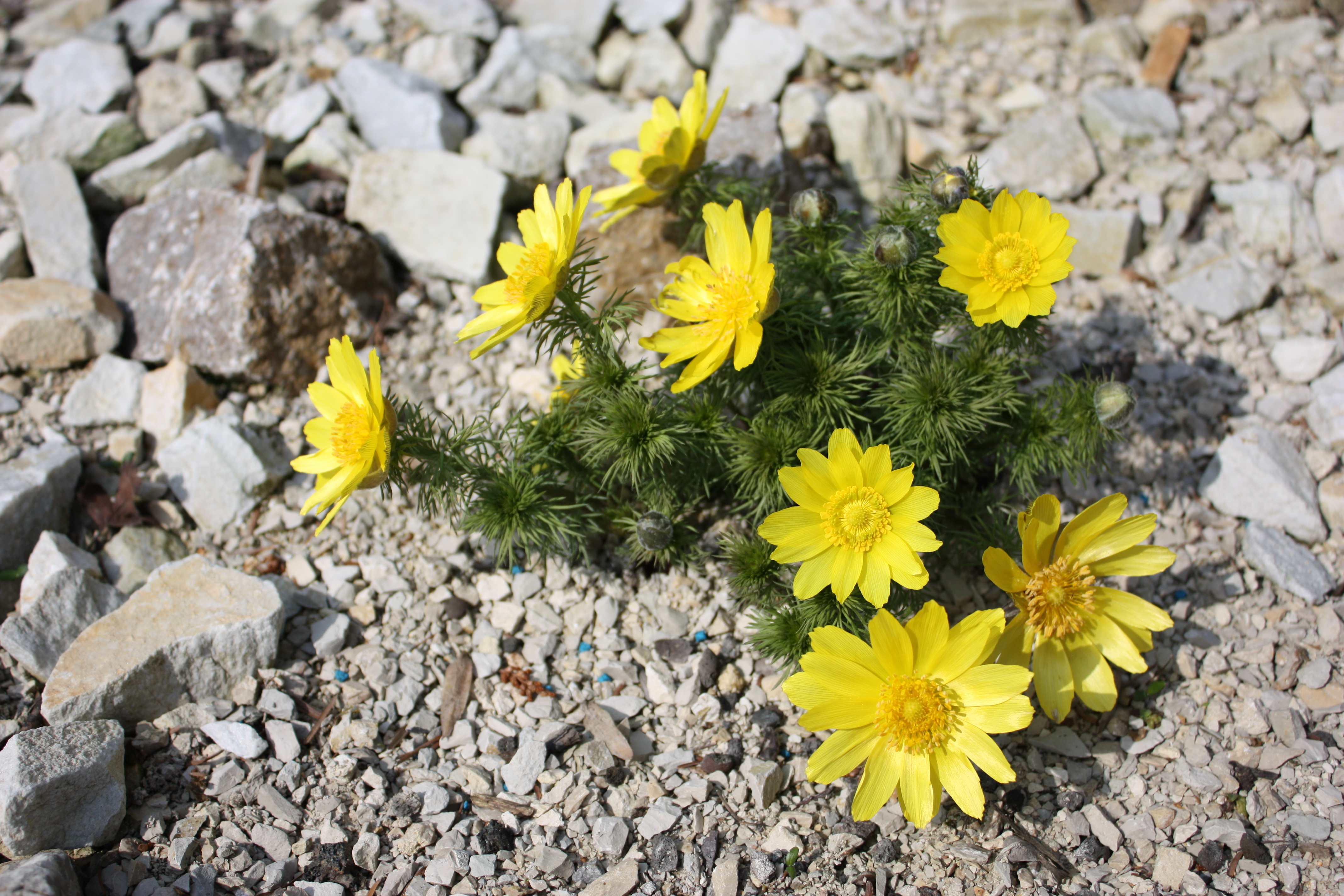 flower of Adonis vernalis, Botanical Garden of the Goethe University Frankfurt